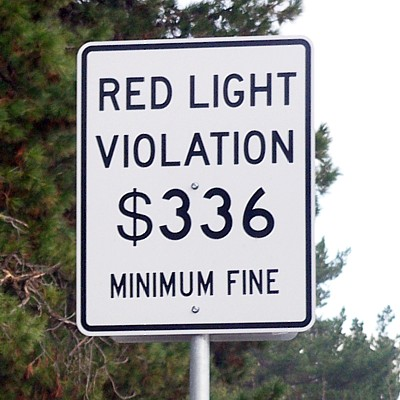 A traffic sign which indicates the minimum fine for going through a California expressway intersection when the traffic light's current state is red. Photographed at the intersection of Foothill Expressway and El Monte Road in Los Altos.